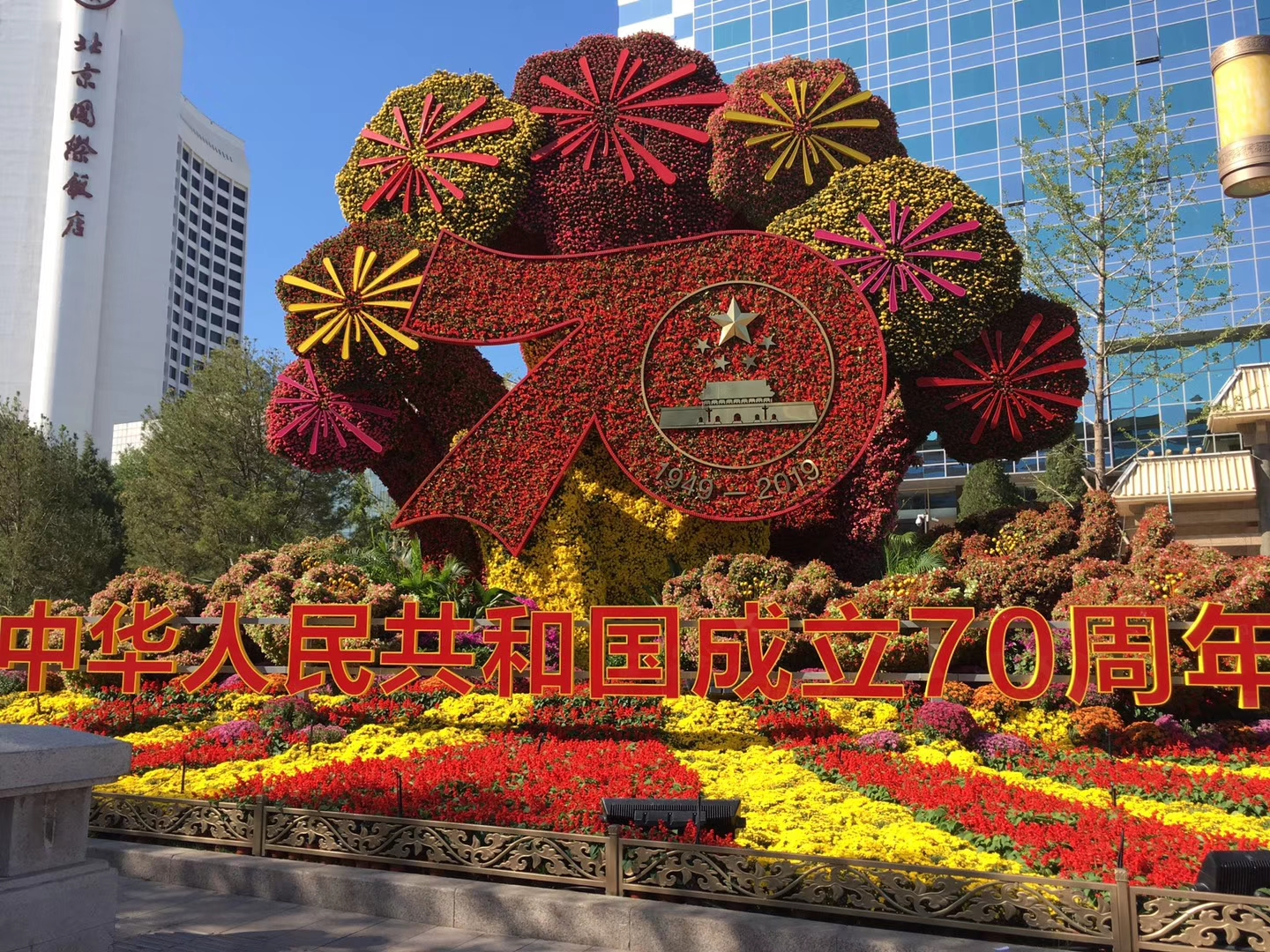 Flowerbed reading "70th anniversary of the People's Republic of China" on Jianguomen Inner Street near Beijing International Hotel